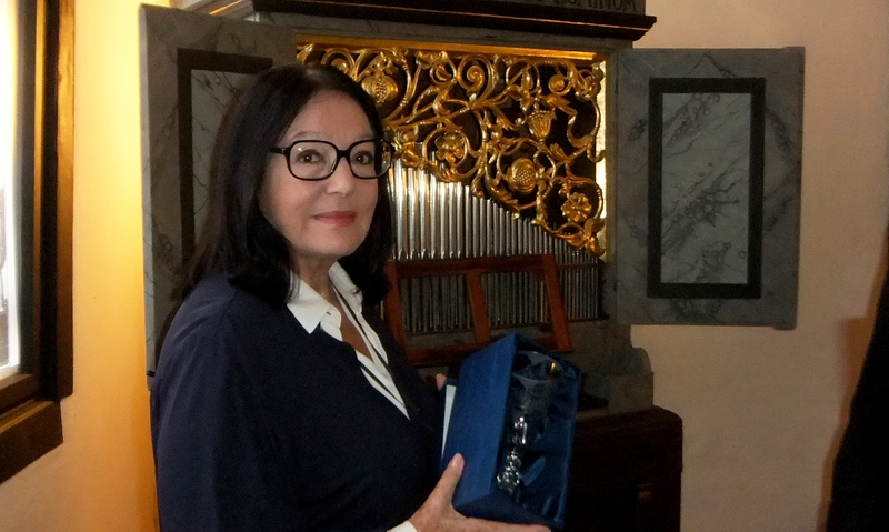 Nana Mouskouri, Bachhaus Eisenach, 1 September 2012